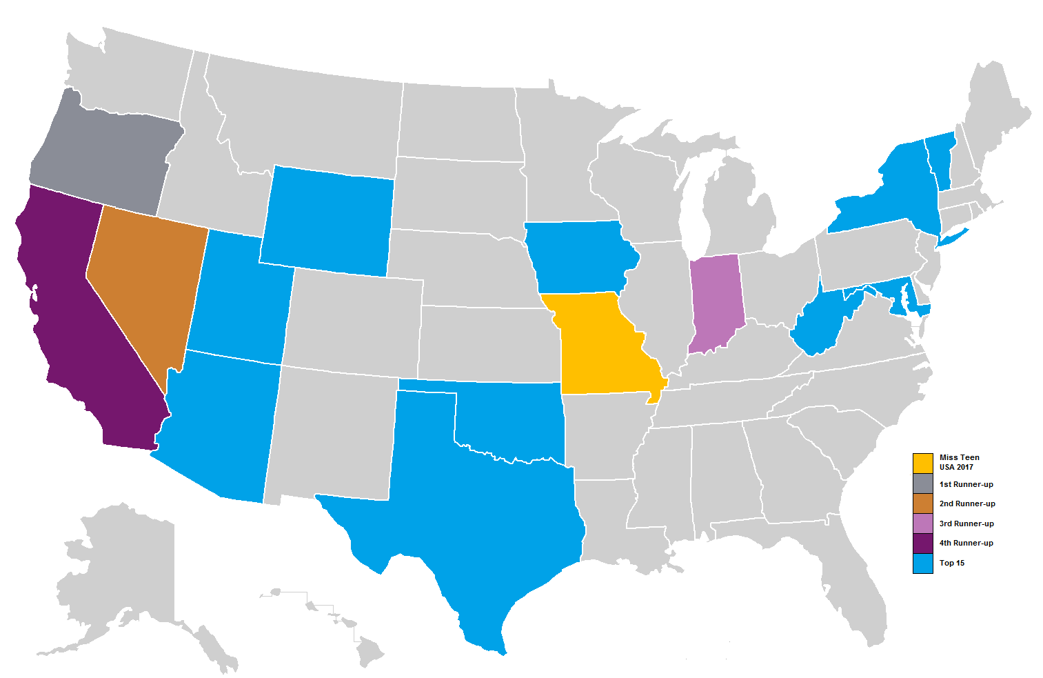 Results by each U.S state and the District of Columbia on the Miss Teen USA 2017 competition.